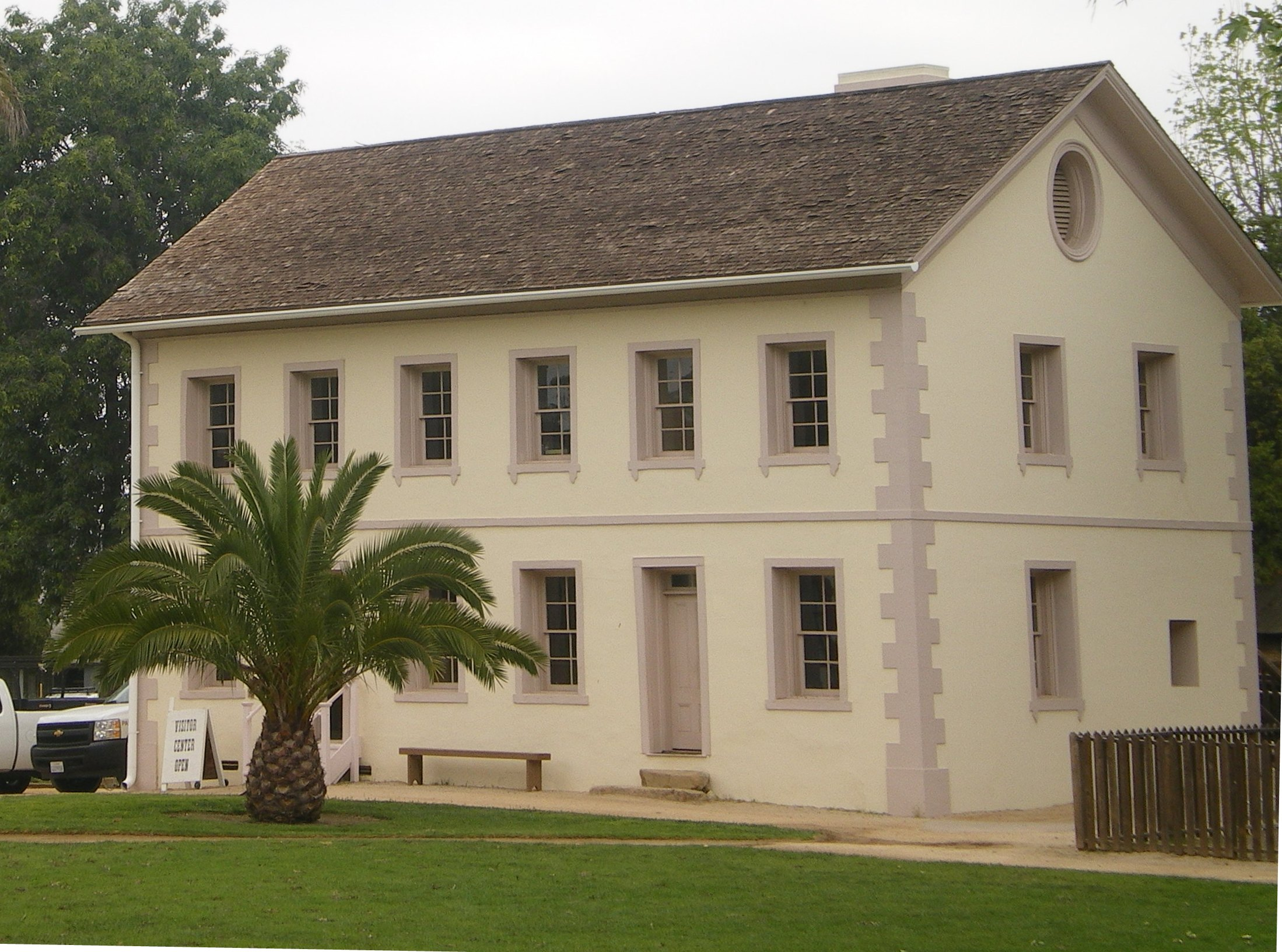 19th-century Garnier Building (limestone) at Rancho Los Encinos State Historic Park. Encino, San Fernando Valley, California.